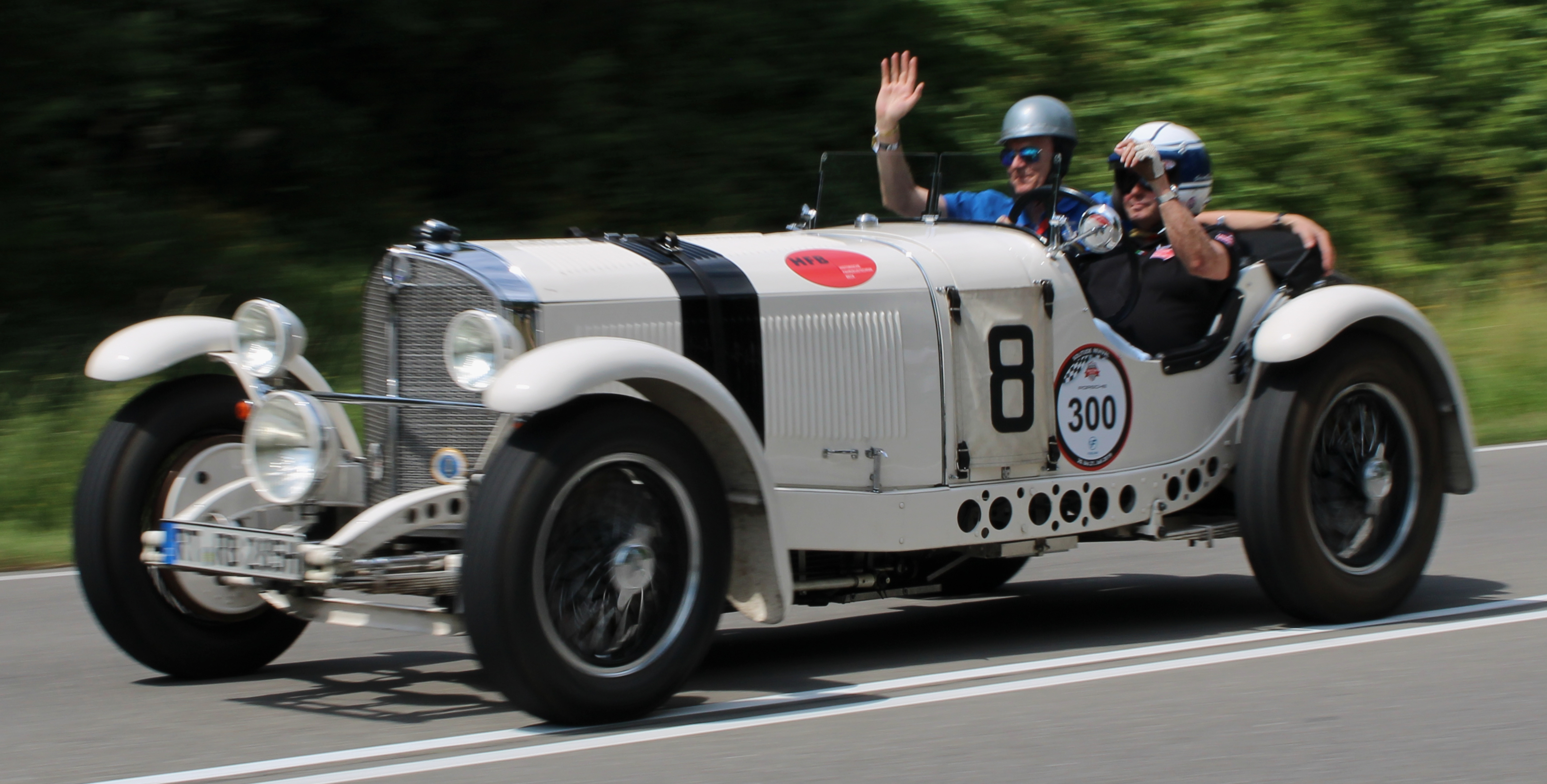 Mercedes Benz SSKL (1929) with Jochen Mass at Solitude Revival 2019